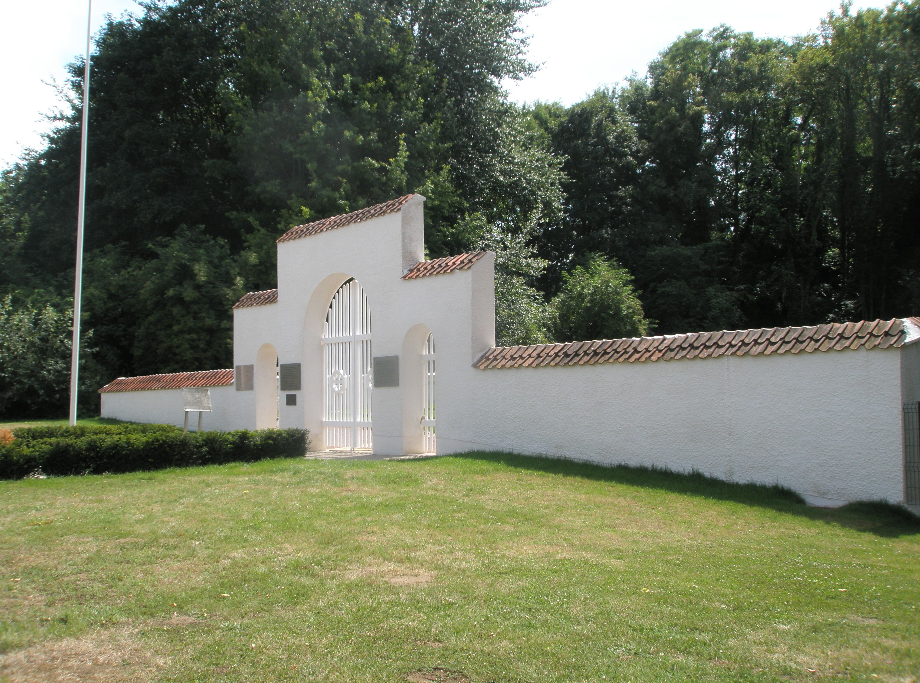 Danish soldiers cemetery in Braine, France